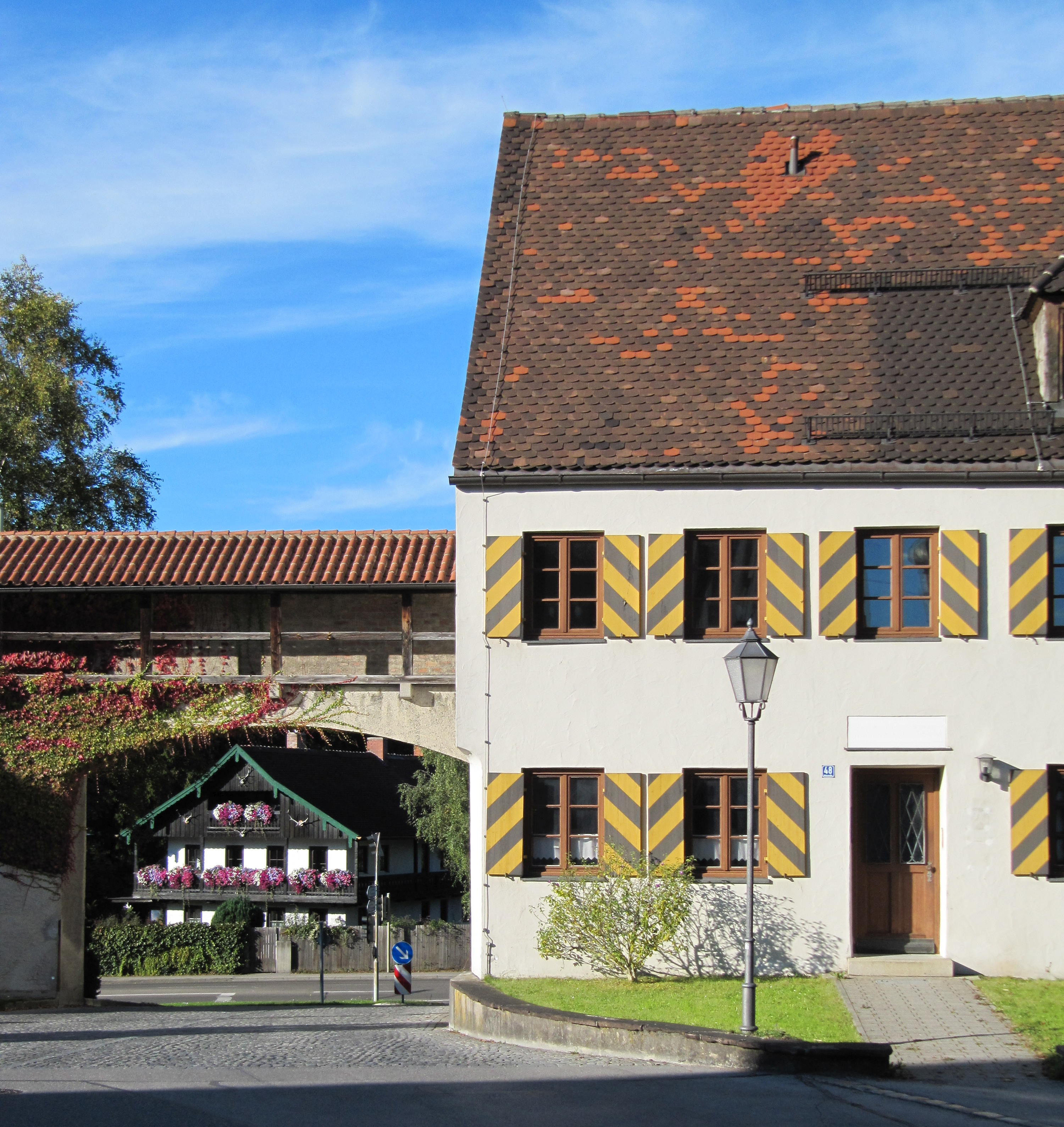 City Gate (Muenztor) in Schongau from north